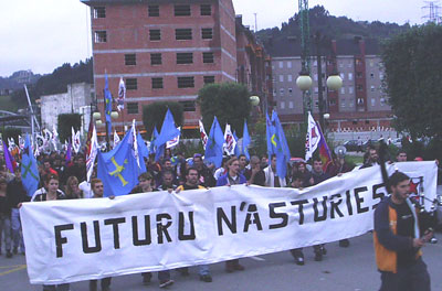 Demonstration in Asturies